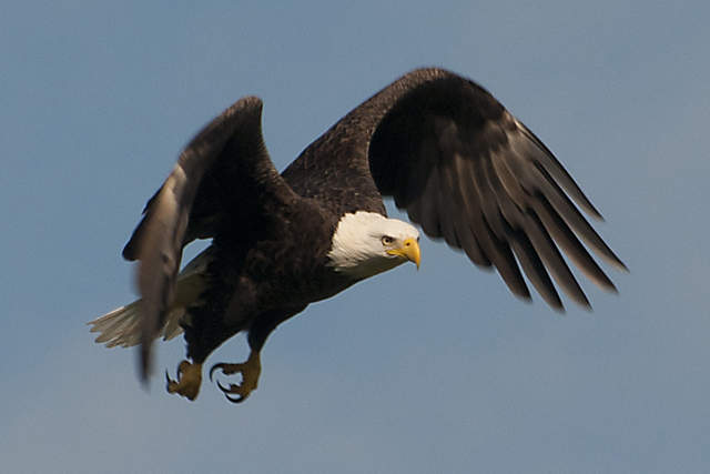 The Bald Eagle By Carole Robertson